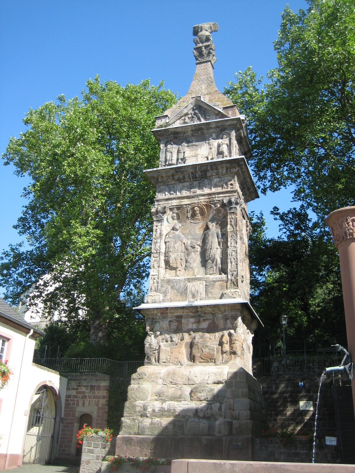 Roman column at Igel, Rheinlandpfalz, Germany